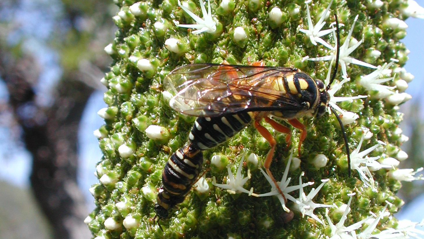 Tiphiid wasps (Zaspilothynnus species, det. Dr. Lynn Kimsey) on Black Boy (Xanthorrhoea species), Stradbroke Island, Queensland, Australia